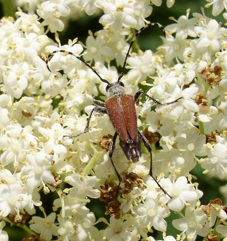 Flower longhorn, Brachyleptura rubrica, on Queen Anne's lace. Churchville Nature Center, Bucks County, Pennsylvania, USA.